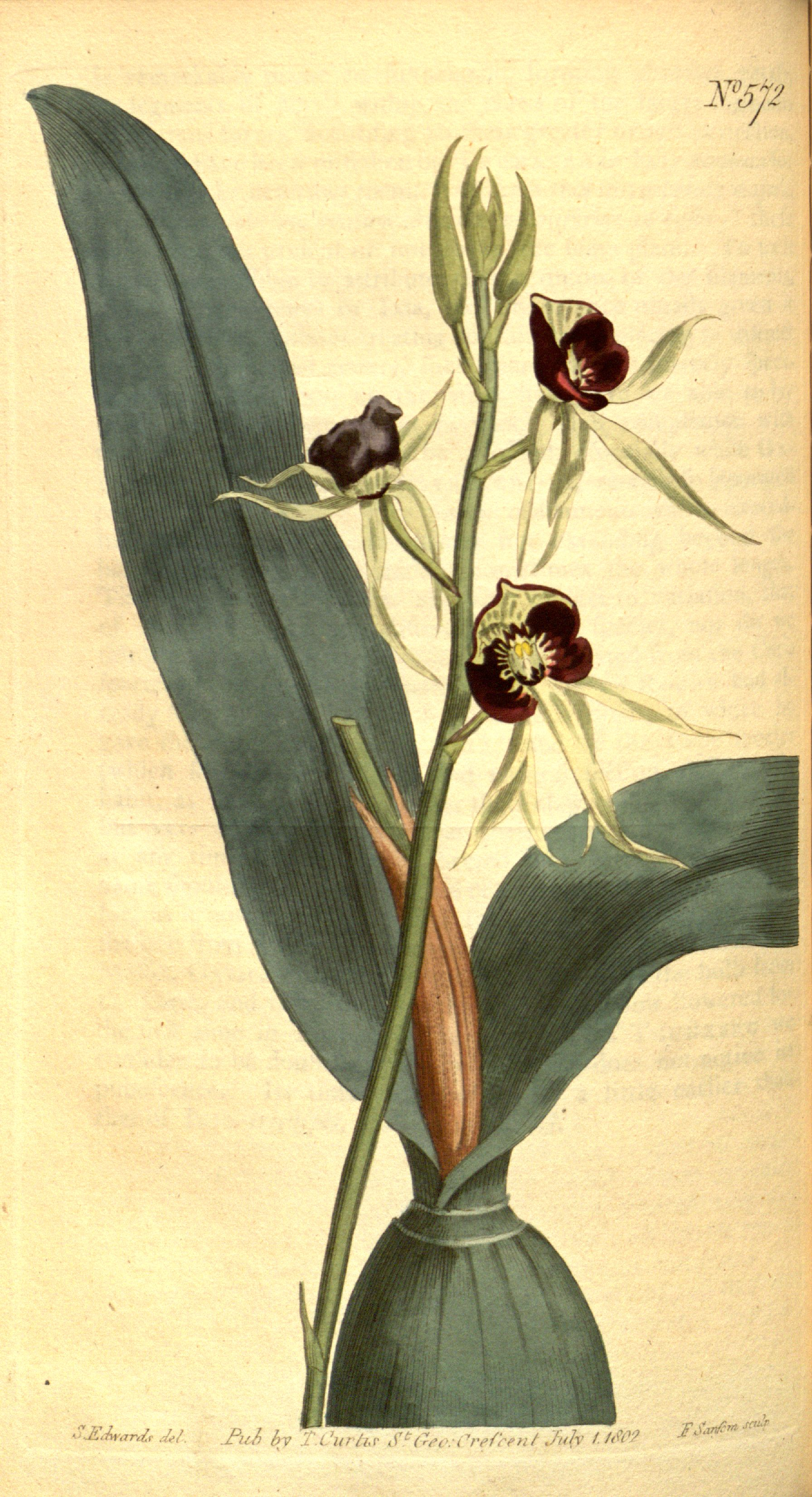 Illustration of Prosthechea cochleata